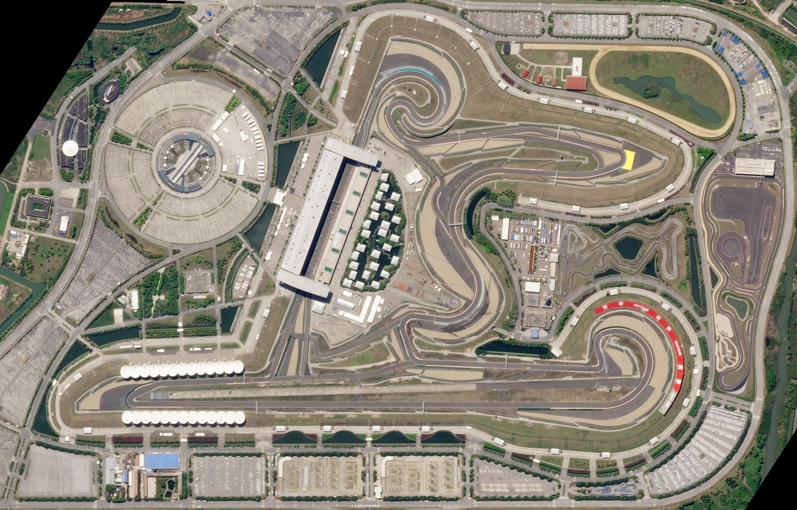 The Shanghai International Circuit, a motorsport race track situated in the Jiading District of Shanghai and home of the annual Formula 1 Chinese Grand Prix. Image taken on April 7, 2018, by a Planet Labs SkySat satellite.